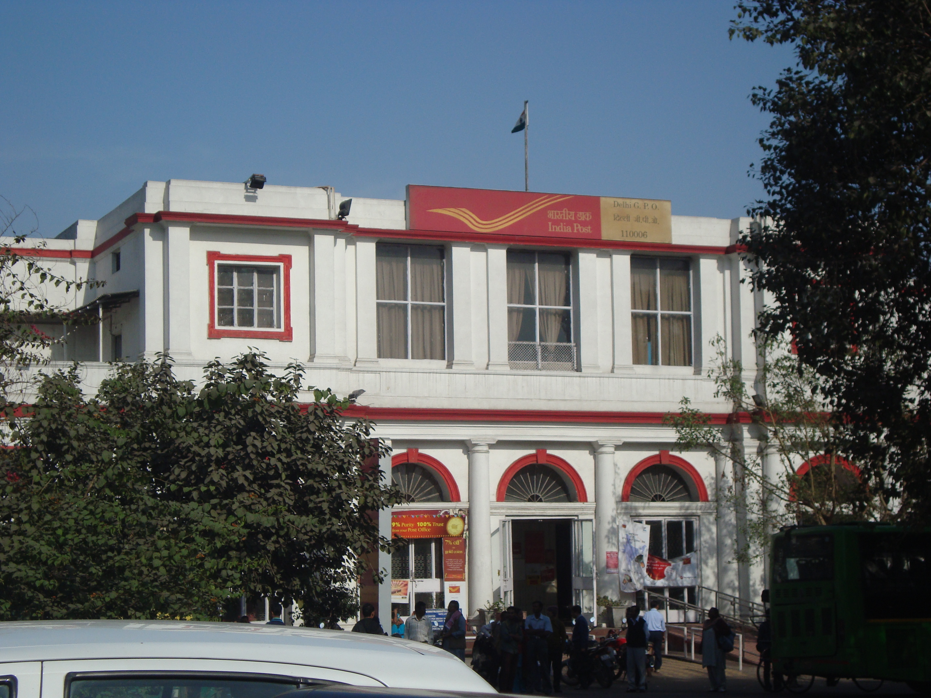 Delhi Genaral Posst Office - Hamilton Road, Delhi